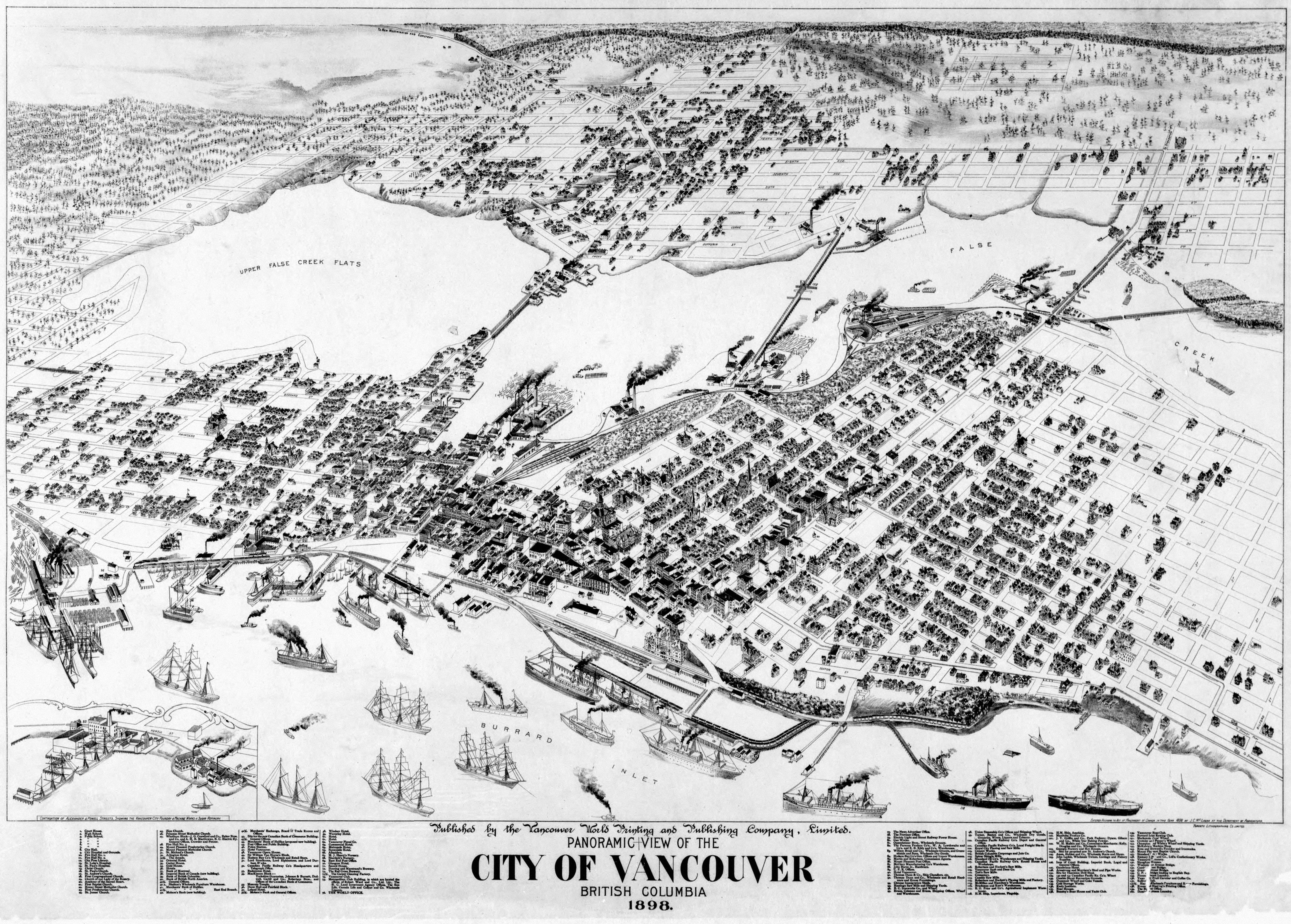 Panoramic view of the city of Vancouver British Columbia 1898. Published by the Vancouver World Printing and Publishing Company, Limited. Toronto Lithographing Co. Limited. Description: Print Dimensions: 71 x 102 Copyright: Expired Microfiche Number: NMC 11615 Call Number: H1/640/Vancouver/1898 Record No.: 25023 Originally uploaded to en: by Bobanny 21:45, 28 October 2006 (UTC)